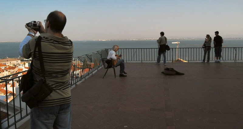 The Portas do Sol Miradouro is the terrace that every person from Lisboa would like to have at home! The astonishing sight of Lisboa blends perfectly with the also magnificent view over the river Tagus. Located in between several highlights of lisboa, from the Portas do Sol Miradouro one can observe the delightful São Vicente Church and the typical Alfama quarter with its narrow picturesque streets.